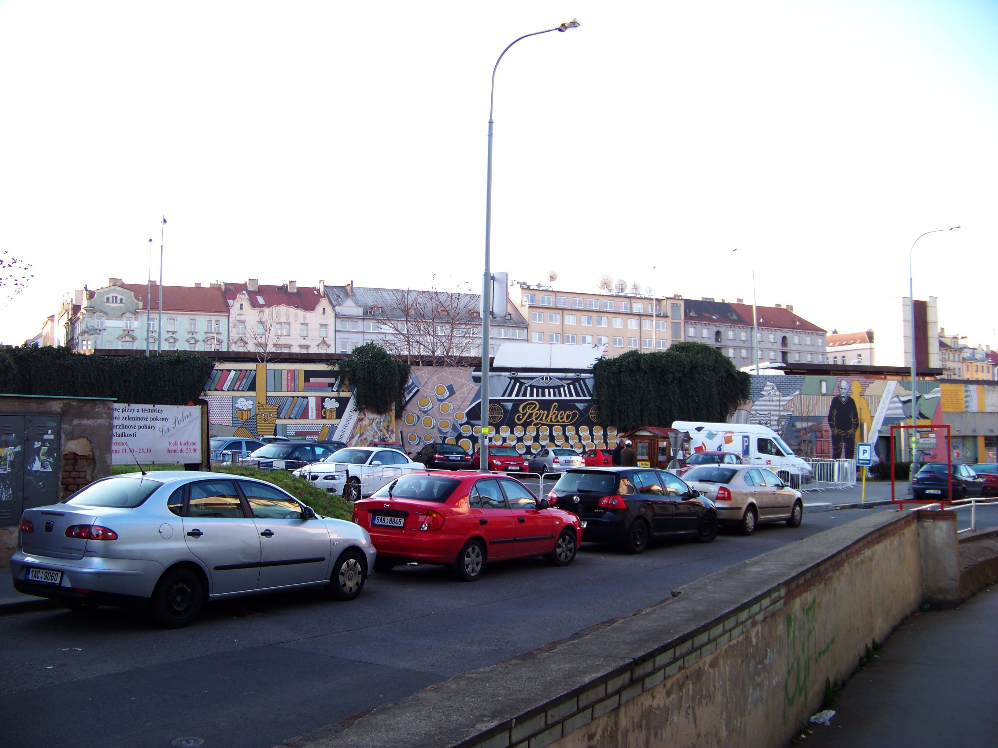 Prague-Libeň, the Czech Republic. Na hrázi street, a wall to Bohumil Hrabal. - OpenStreetMap(Info)